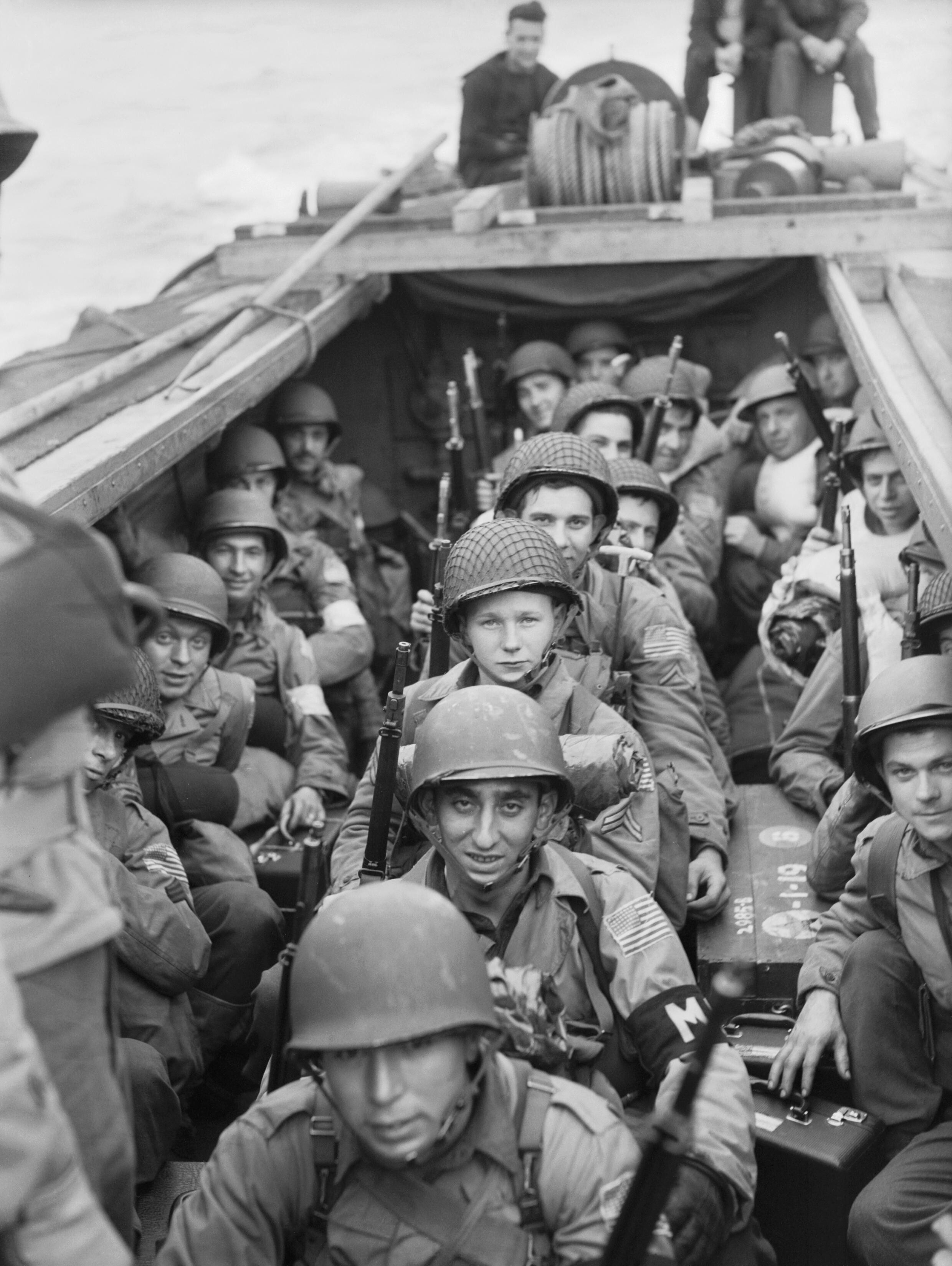 American troops on board a landing craft heading for the beaches at Oran in Algeria during Operation 'Torch', November 1942. American troops on board a landing craft going in to land at Oran during Operation TORCH.